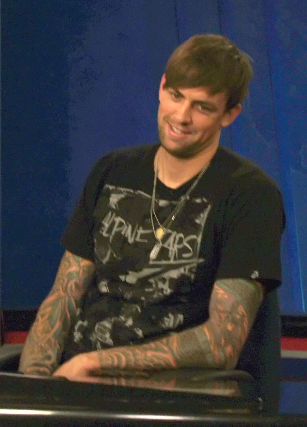 Angels & Airwaves' David Kennedy in San Diego by Phil Konstantin